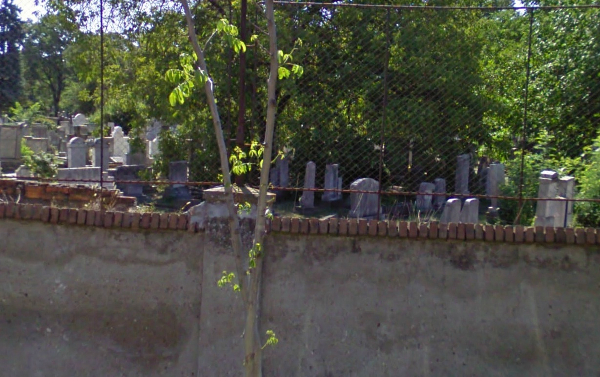 ARAD